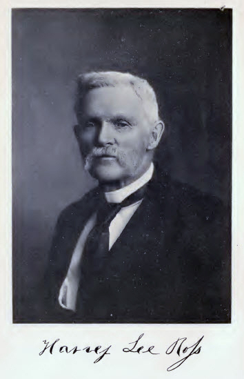 Photo and signature of Harvey Lee Ross from: Ross, Harvey Lee. 1899. The early pioneers and pioneer events of the state of Illinois including personal recollections of the writer, of Abraham Lincoln, Andrew Jackson and Peter Cartwright, together with a brief autobiography of the writer. Chicago: Eastman Bros.